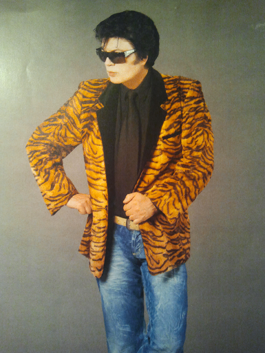 Fancy at a photo shoot in Munich 2008